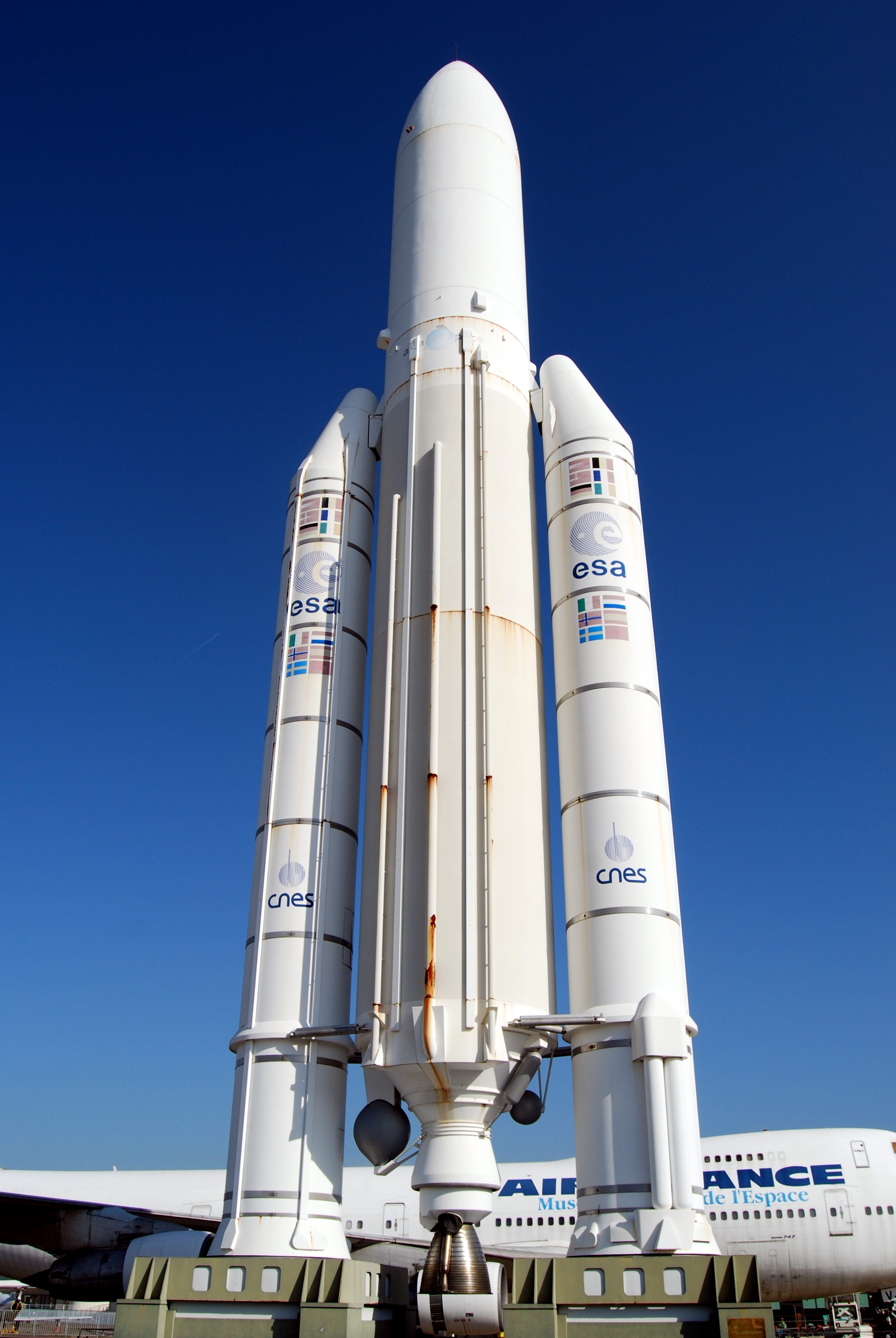 Ariane 5 in Musée de l’air et de l’espace